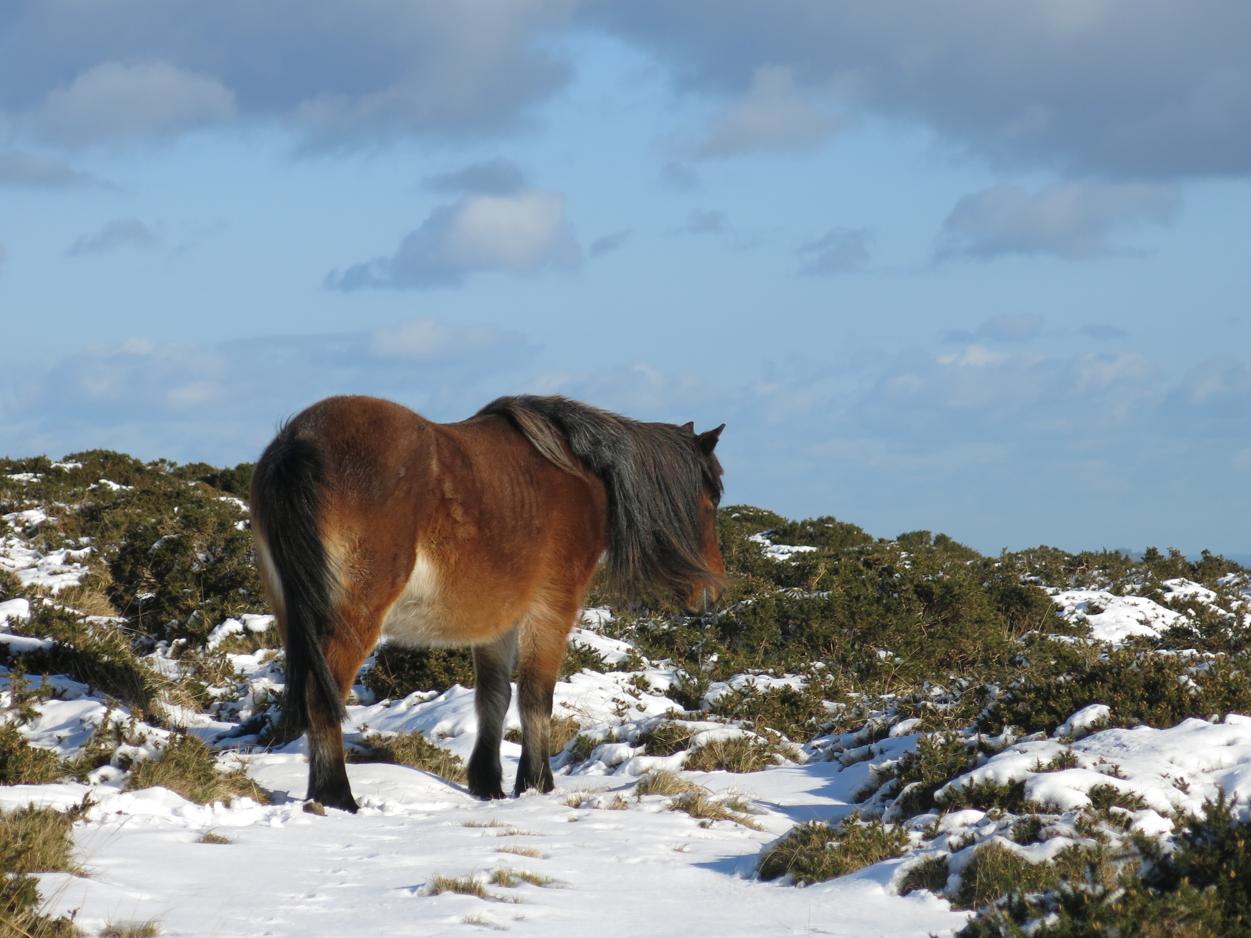 Free-roaming ponies near Ivybridge, at the southern edge of Dartmoor, England. Photo taken by Havu Pellikka on 2 February 2019 on a sunny day after snowfall.